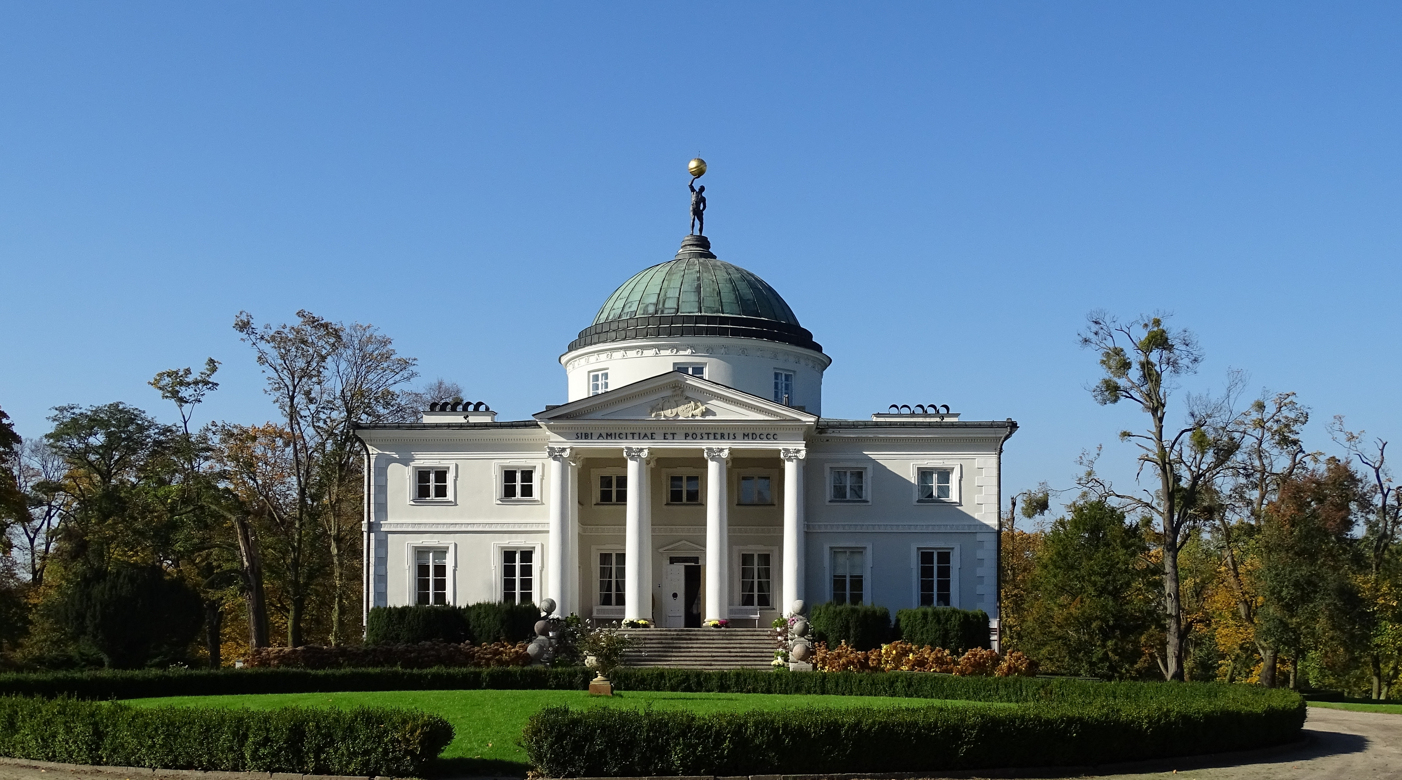 Lubostroń Palace, Gmina Łabiszyn, within Żnin County, Kuyavian-Pomeranian Voivodeship, Poland. Completed in 1800.